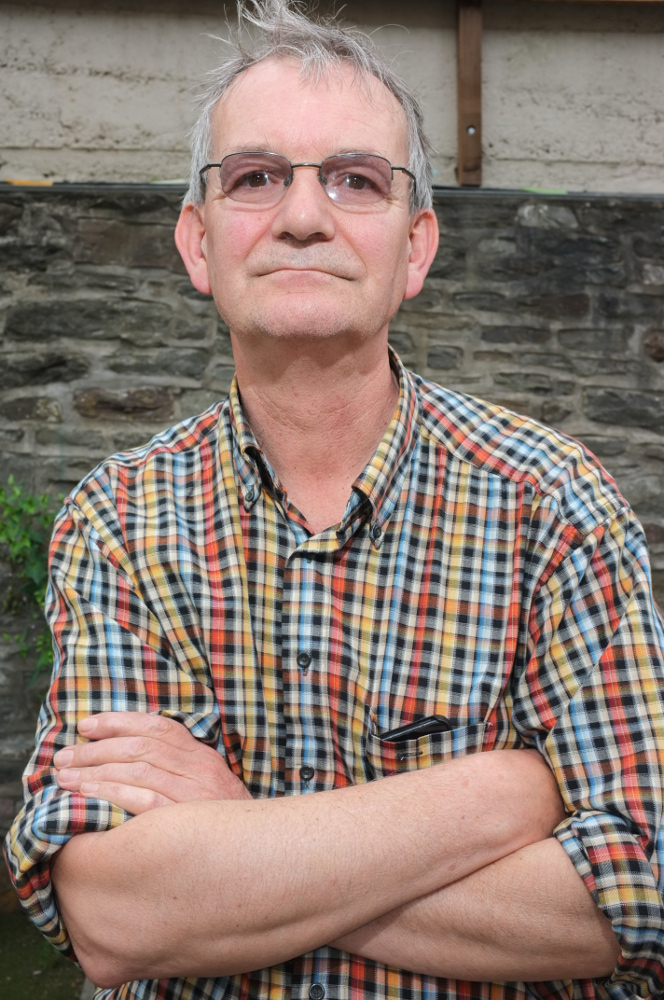 Martin Parr (Bristol Photobook Festival, 2014)